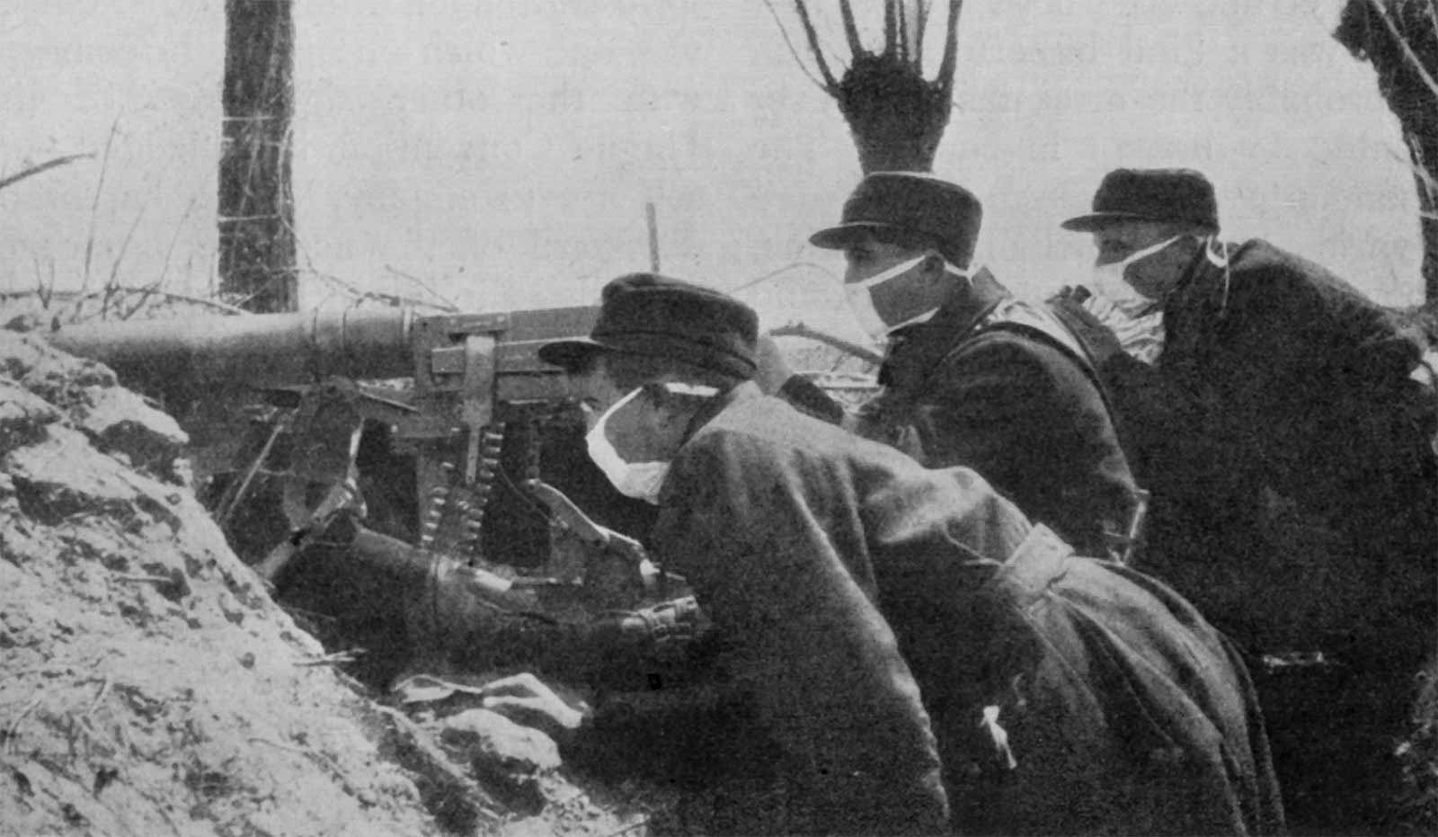 Belgian machinegunners with very early gas masks during World War I.